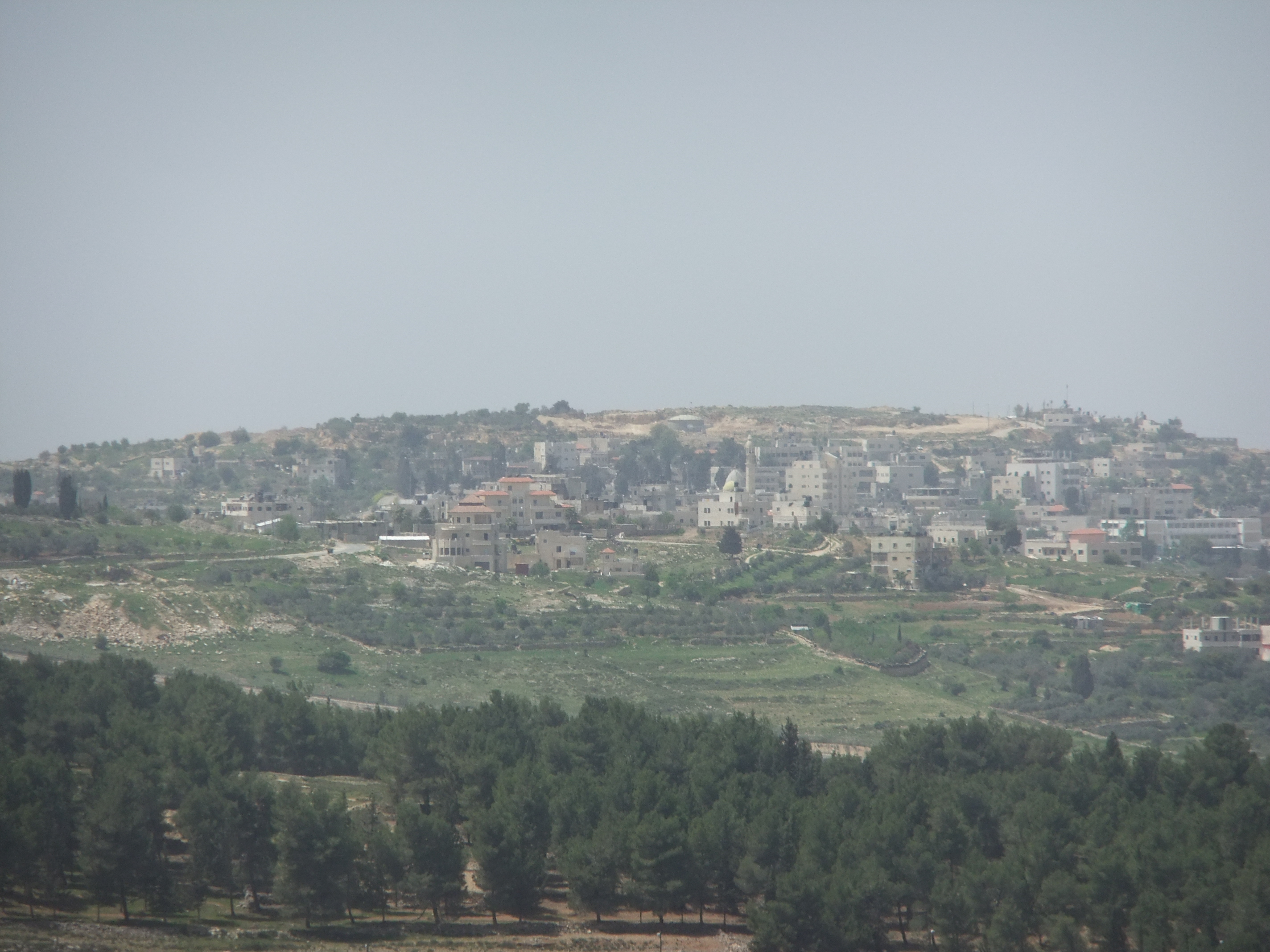 Biddu as viewed from Tomb of Samuel.